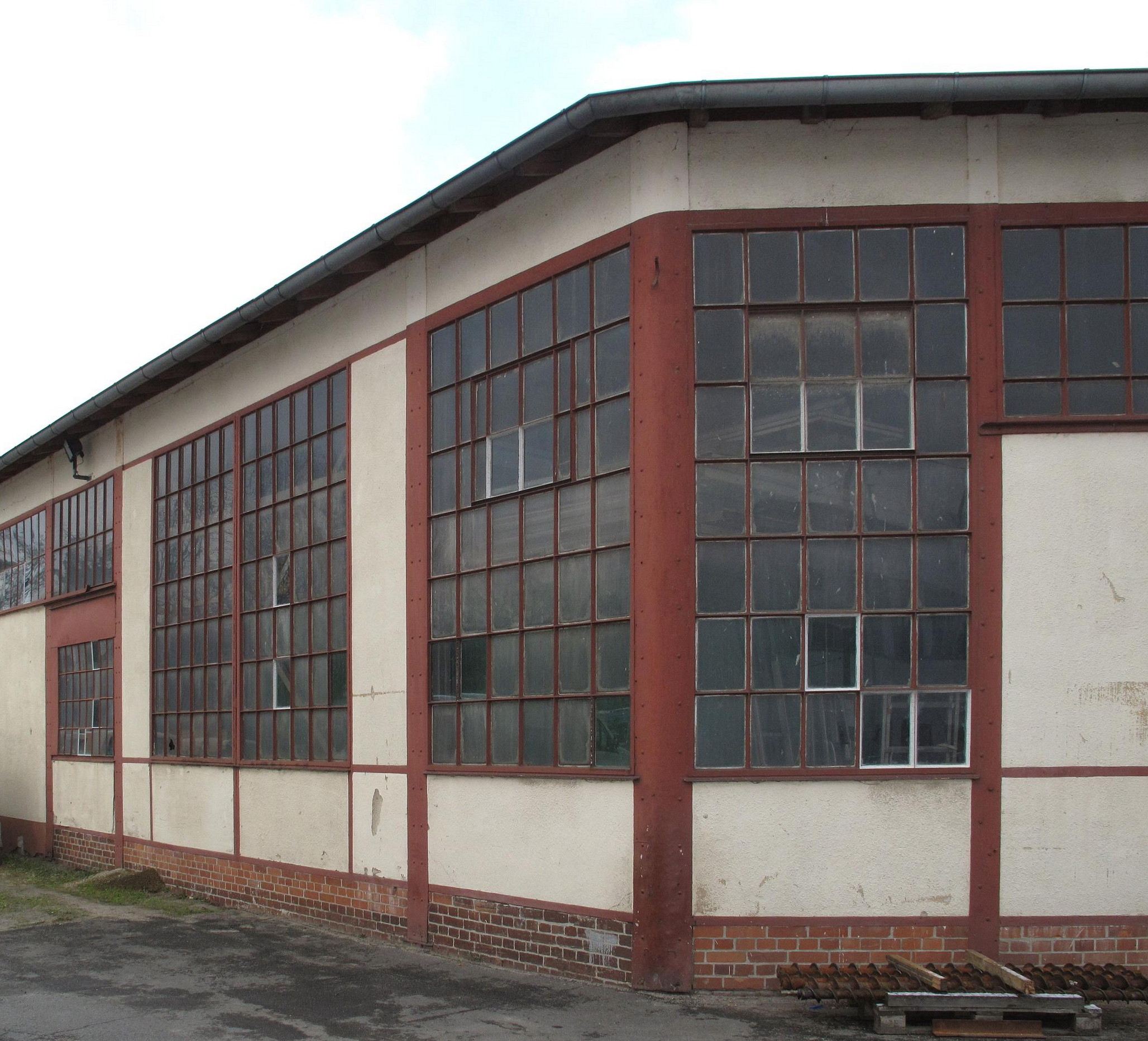 Locomotive shed, built in 1905/07, at the Teltow-Werft (shipyard). The Teltow-Werft in Berlin-Zehlendorf has emerged in 1924 from the building yard and its harbour, which were opened in 1906 especially for the maintenance of the tow-locomotives and for the supply of the Teltowkanal (canal). The shipyard was closed in 1962. The harbour and most of the buildings, mainly built according to plans by the engineering office Havestadt & Contag, are listed today – including this building.